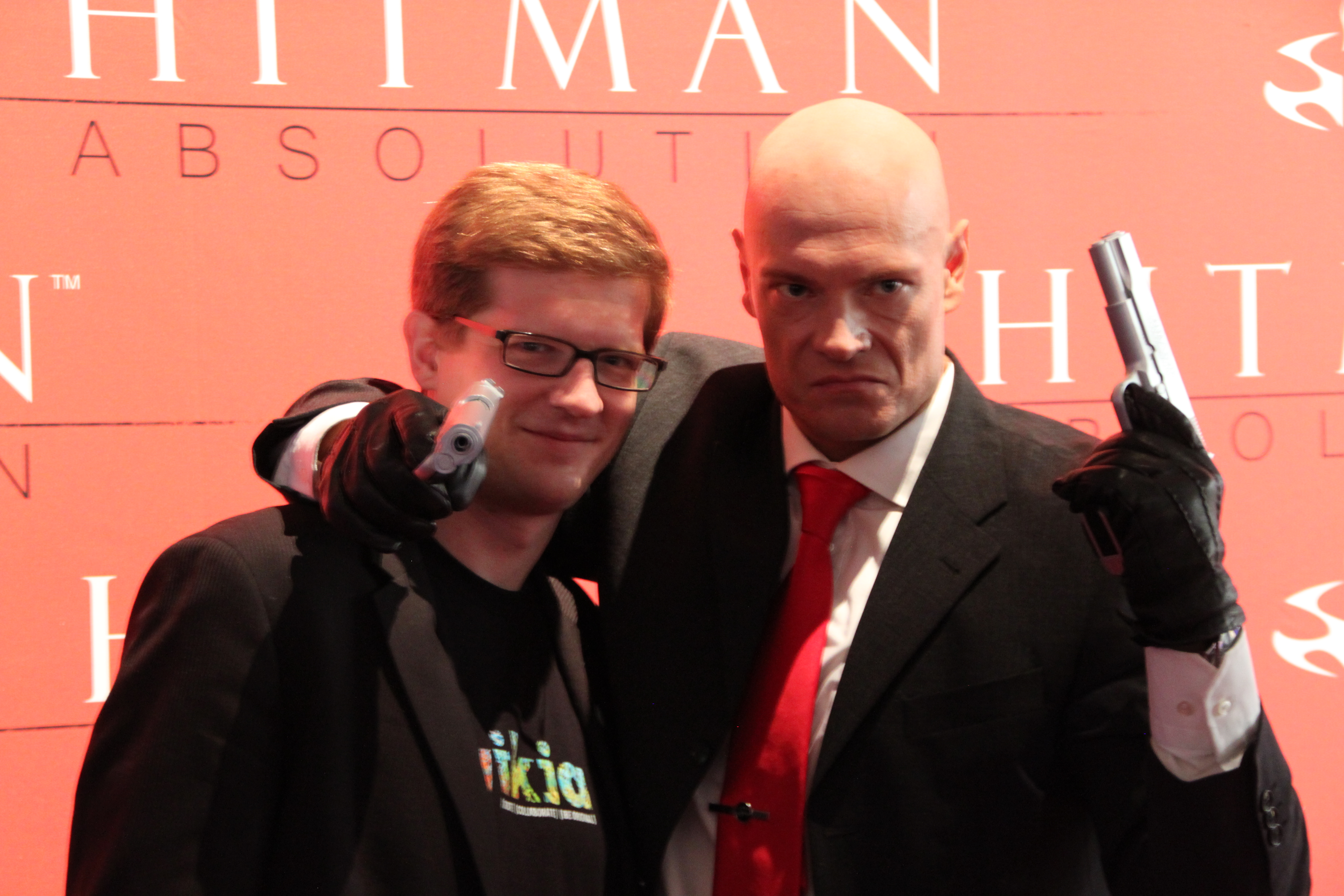 Model posing with fan as Agent 47 (Hitman) at Gamecom 2012